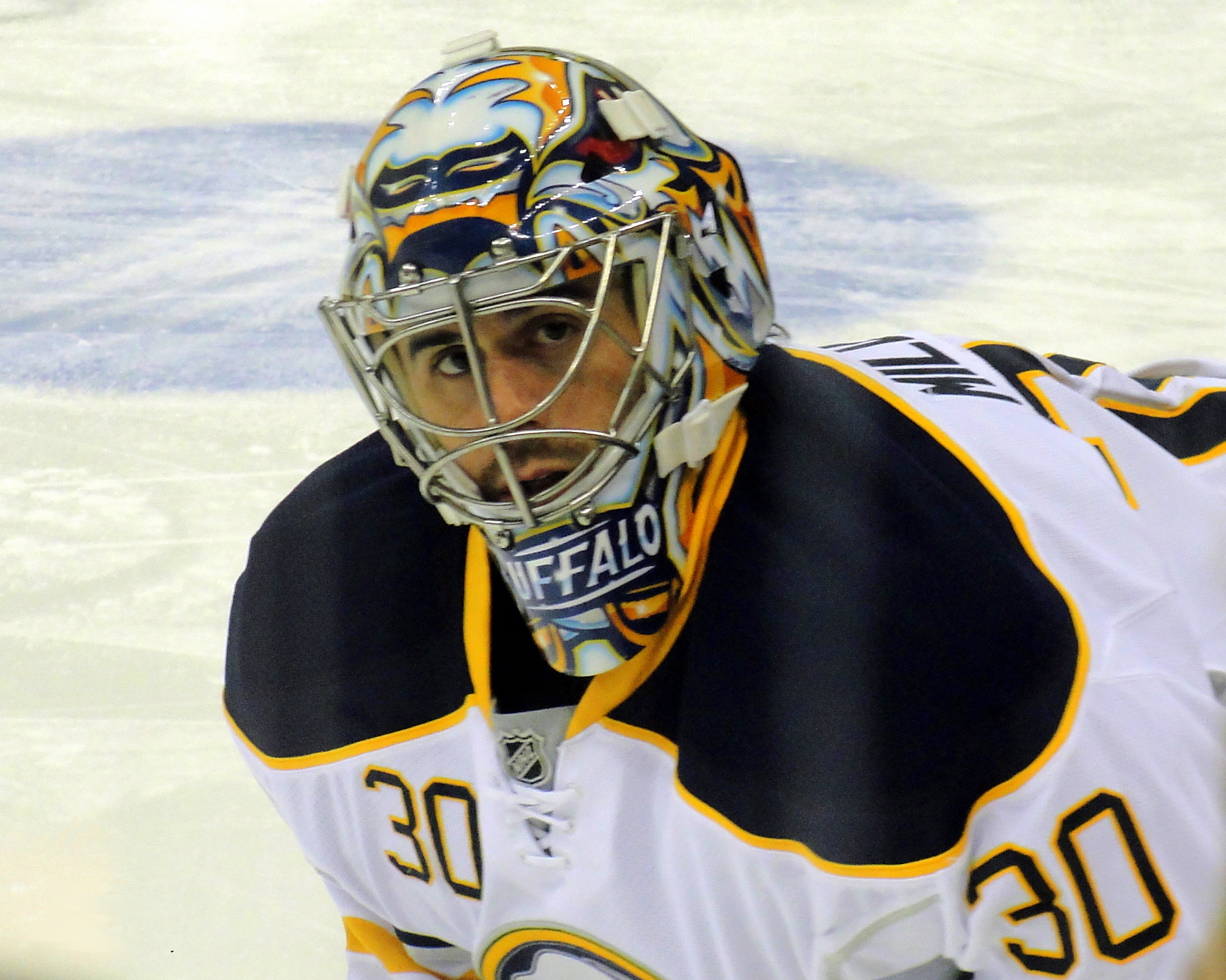 Ryan Miller, goaltender for the Buffalo Sabres, warms up before a game against the Pittsburgh Penguins, October 15, 2011 at Consol Energy Center in Pittsburgh, PA.